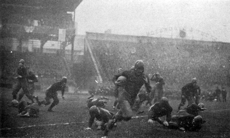 Pitt's Tommy Davies runs during the 1918 game against Georgia Tech. Pitt beat the undefeated and unscored upon Tech team and claimed that season's national championship.